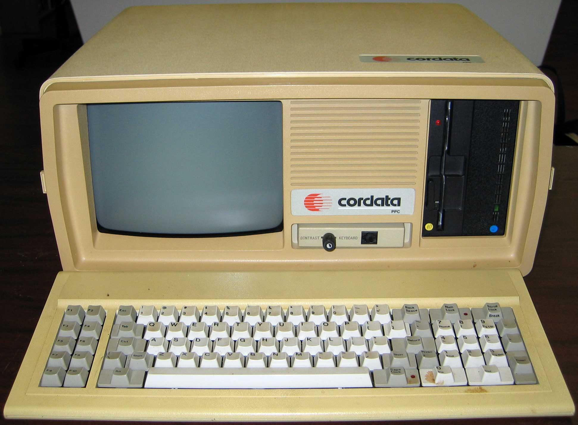 Cordata Portable PC PPC-400-25-200